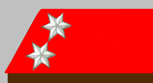 Rank insignias Corporal of the Artillery of the Austria-Hungarian Army